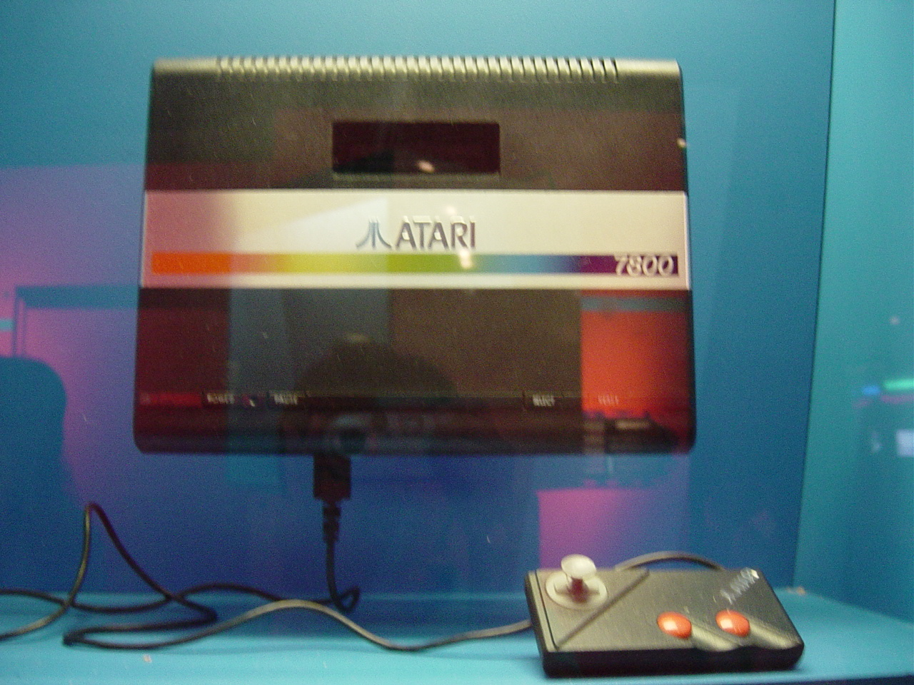 An Atari 7800 video game console with controller.Atari 7800